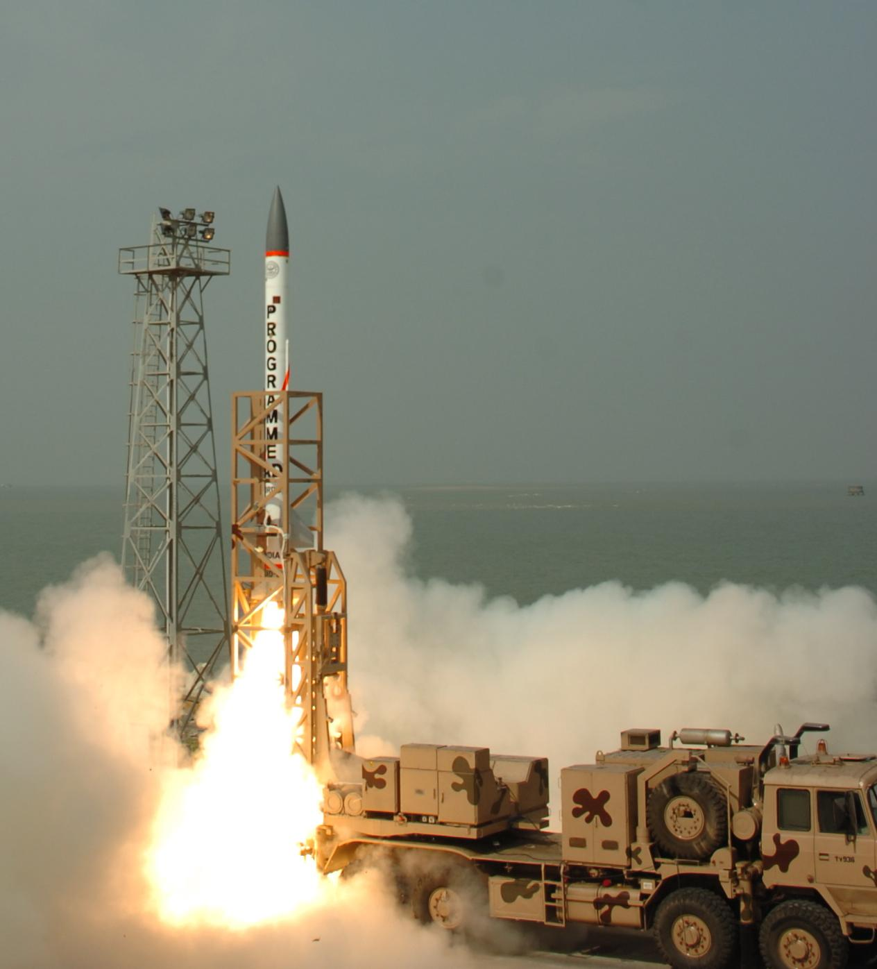 The First ever test of the Indian Advanced Air Defence (AAD) Missile, conducted on 6 December, 2007 from DRDO's Integrated Test Range (ITR), Wheeler's Island, Chandipur-on-Sea. The AAD is an endo-atmospheric anti-ballistic missile system that can intercept incoming ballistic at altitudes up to 30 km. in this test, the AAD intercepted the incoming missile at an altitude of 15 km. Image is a cropped version of Image:AAD Launch.jpg